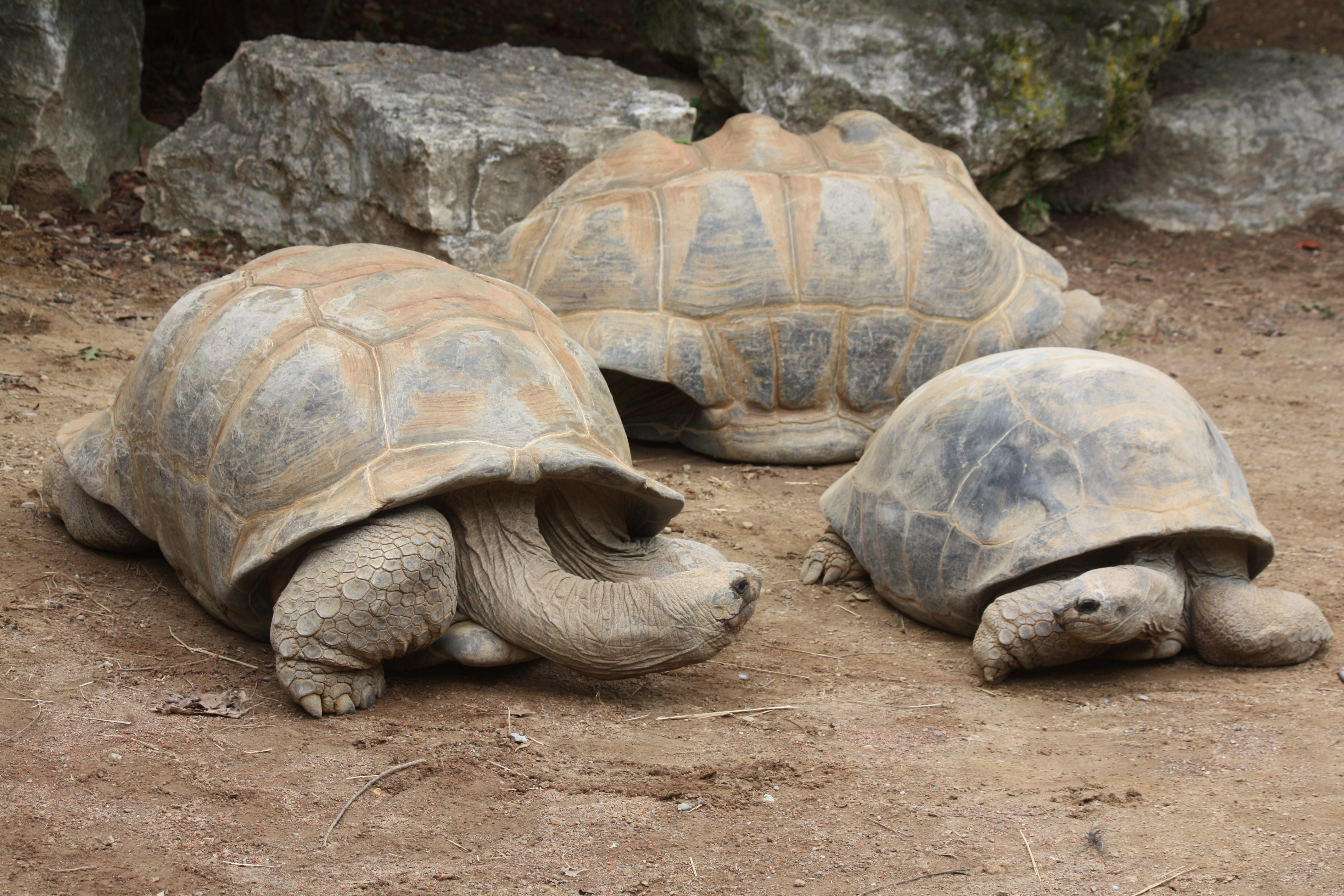 Aldabra Tortoise Geochelone gigantea at Louisville Zoo